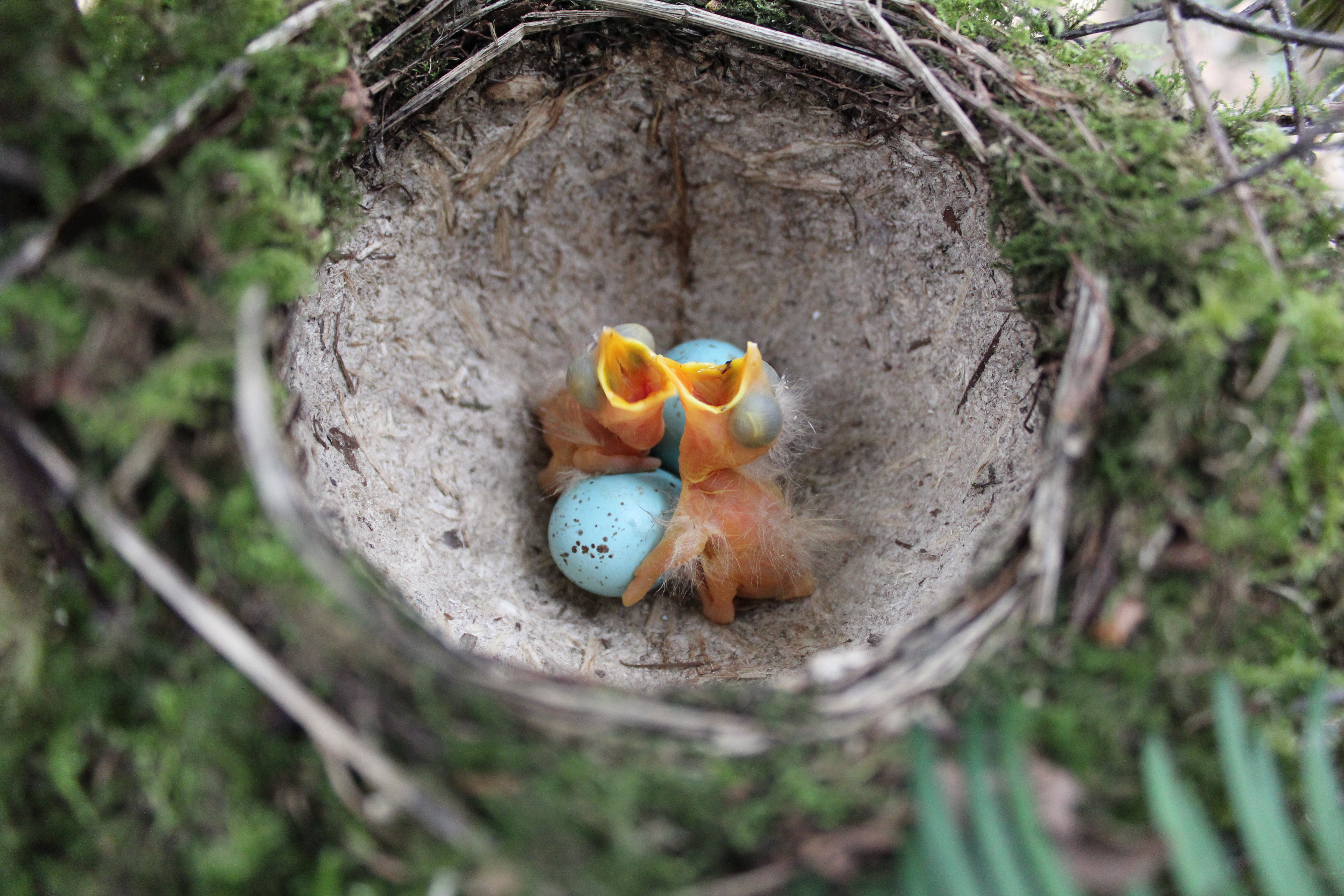 Latin name Turdus philomelos Family Chats and thrushes (Turdidae) Overview A familiar and popular garden songbird whose numbers are declining seriously,... Where to see them ... When to see them All year round. What they eat Worms, snails and fruit.